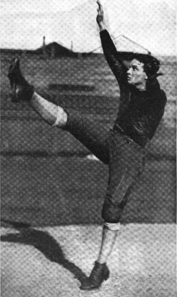 Georgia Tech fullback "Judy" Harlan circa 1921